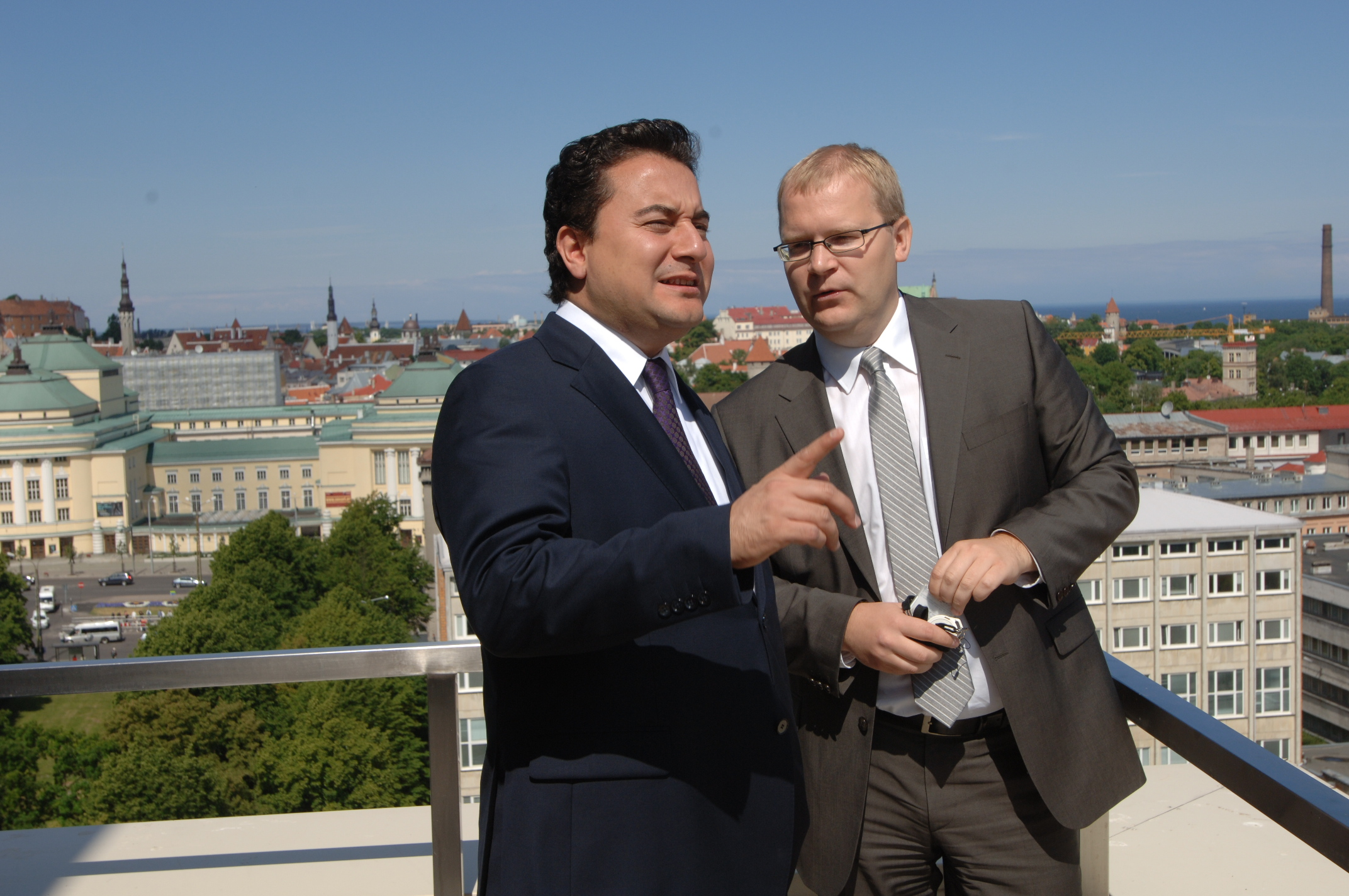 Ali Babacan and Urmas Paet in Tallinn.